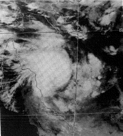 Infrared image of Cyclone Winifred from GMS at 0200 UTC on January 31, 1986. Enhanced to highlight cloudtop features at heights between 10 and 16 km.